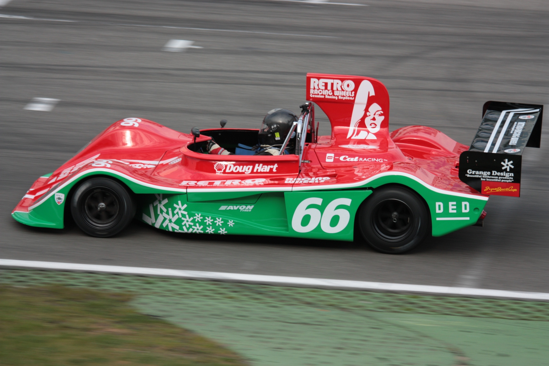 Doug Hart driving his March 75S at SuperSportsCup saturday race at Hockenheim Historic 2011.